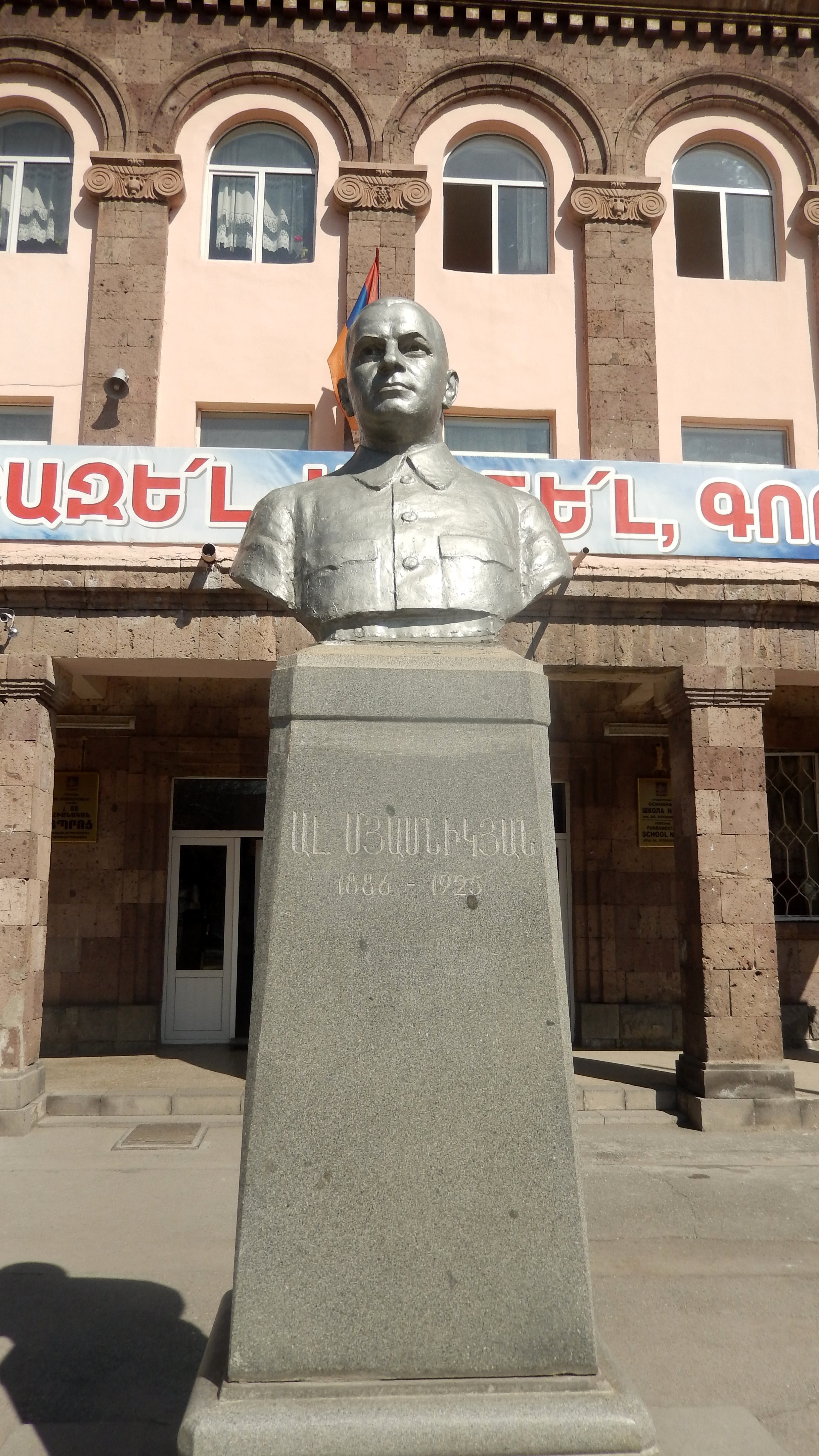 Ալեքսանդր Մյասնիկյանի կիսանդրին համանուն դպրոցի բակում 11/15